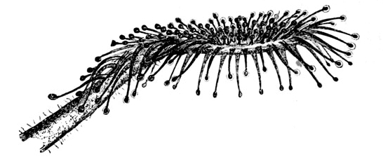 Figure from the German translation of the book "Charles Darwin Insectenfressende Pflanzen" (without caption: German caption in [ older version).